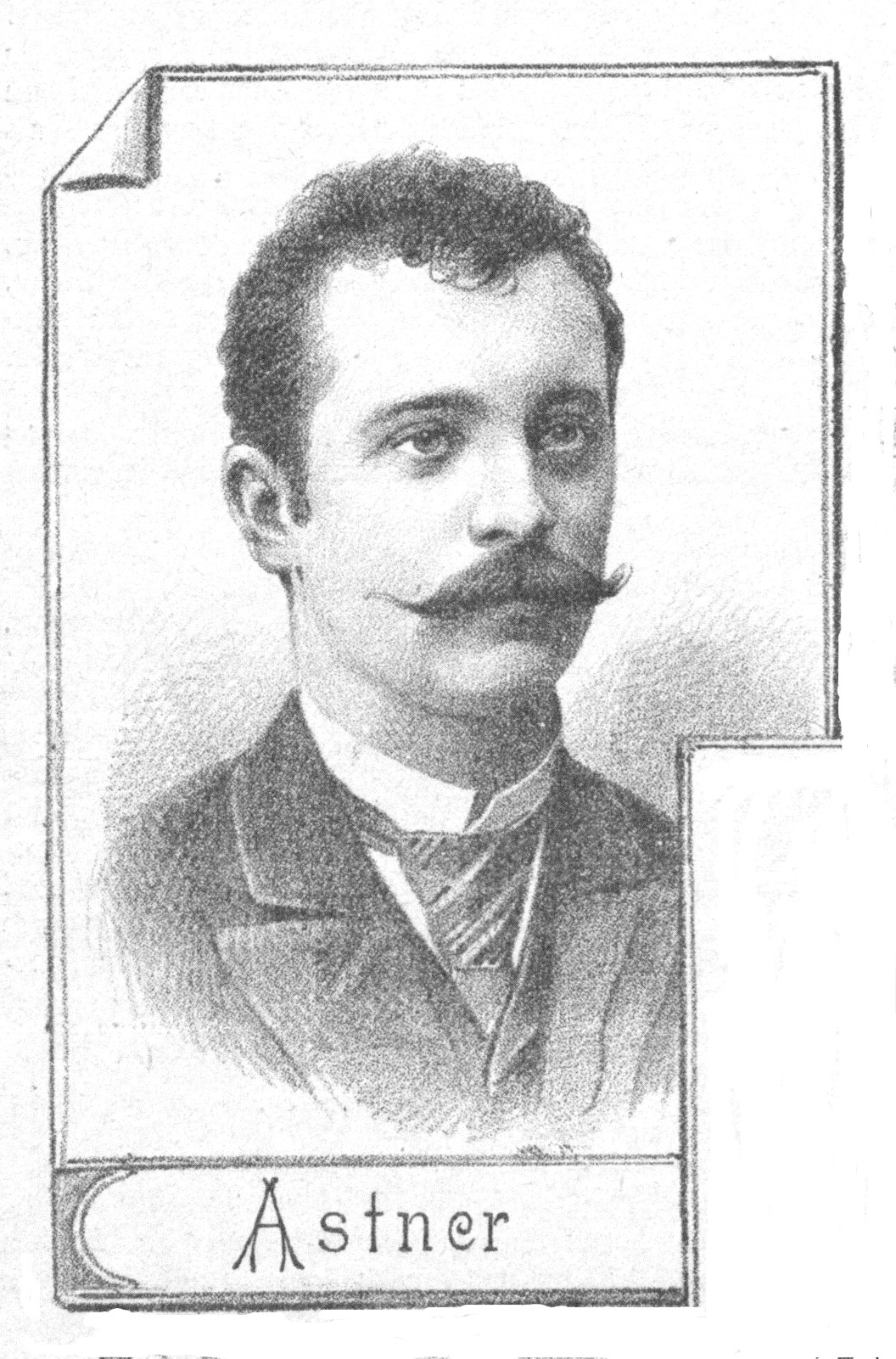 Portrait of Carl Astner, Austrian opera singer active in the late 19th and early 20th centuries. Shown as a member of a theater in Karlsbad (Karlovy Vary).